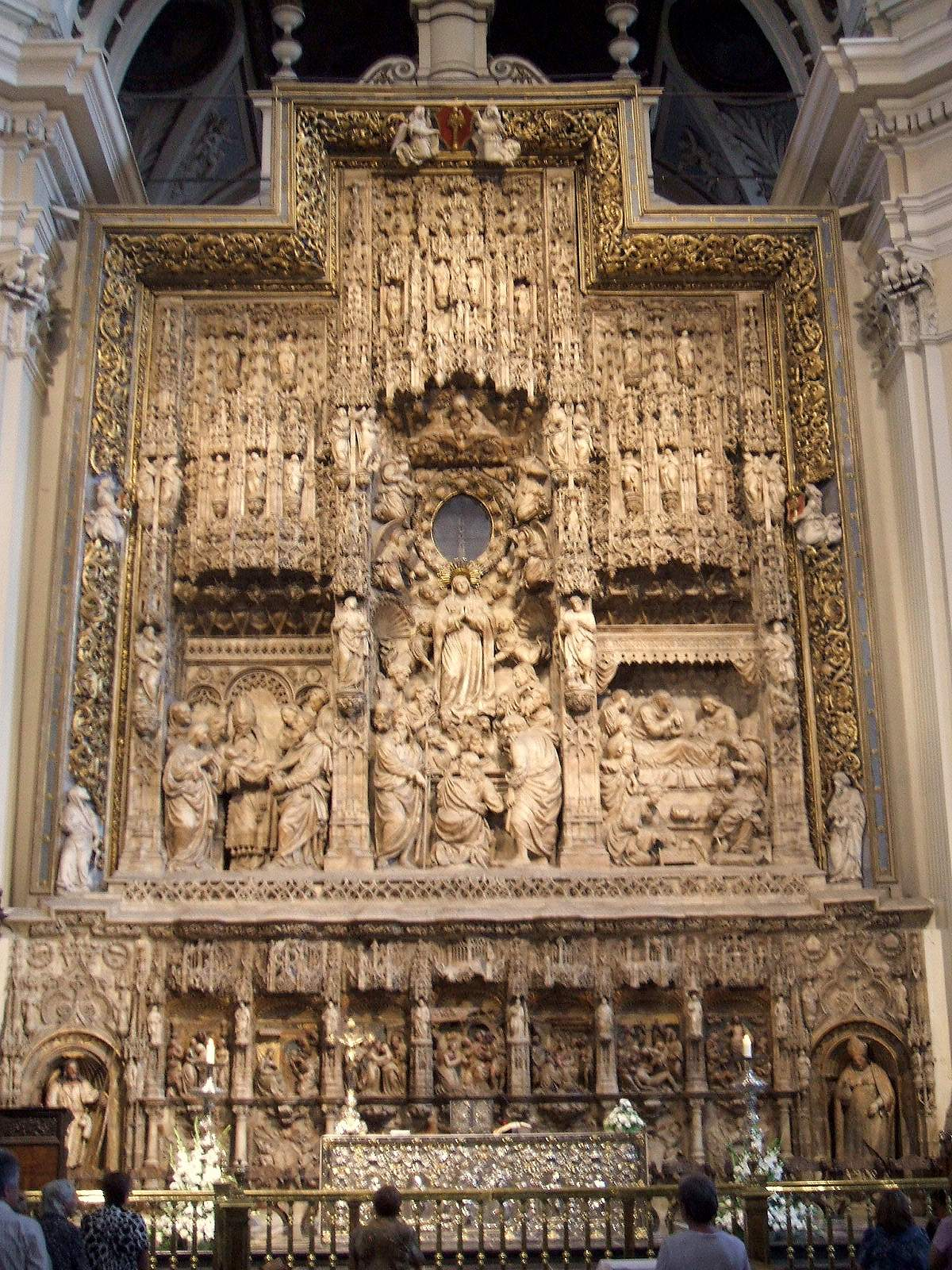 Retablo mayor de la Basílica del Pilar de Zaragoza, obra de Damián Forment